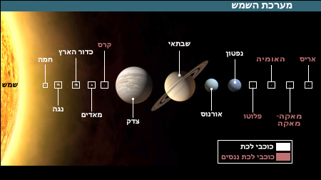 Hebrew version of file:UpdatedPlanets2006.jpg. From